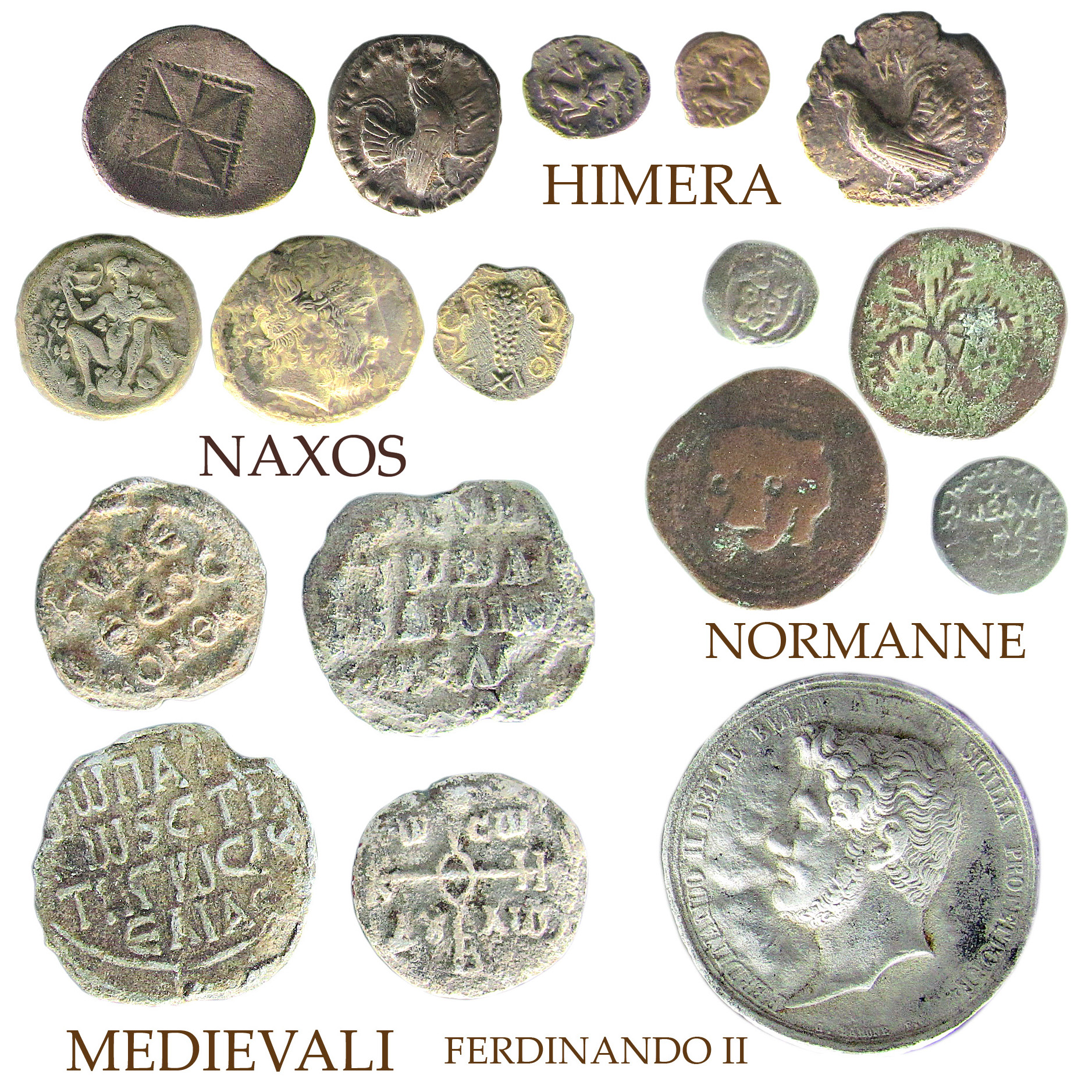 Part of numismatic collection of Museo Mandralisca